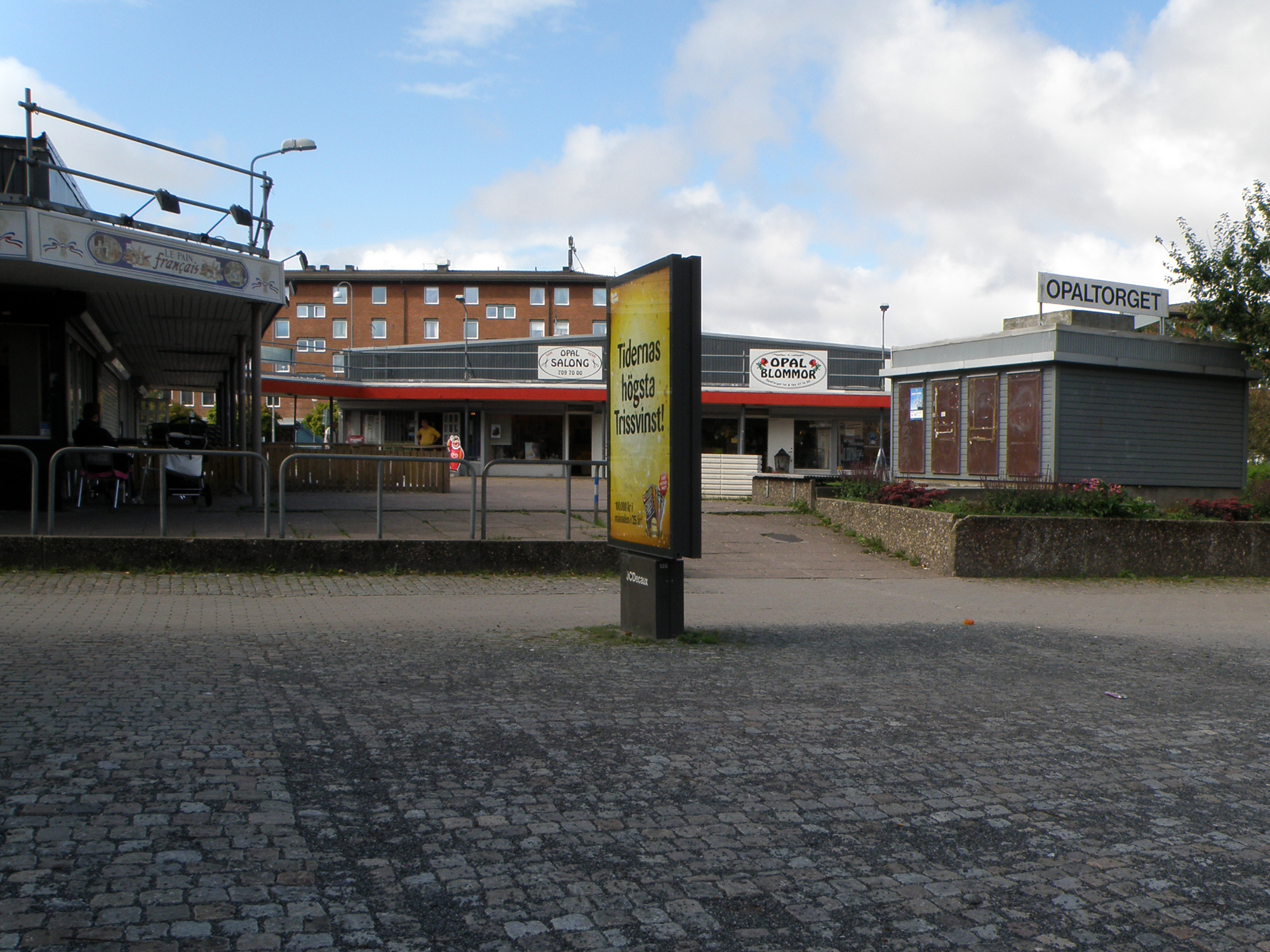 Opaltorget, Göteborg Sweden. City planning from the Million Programme